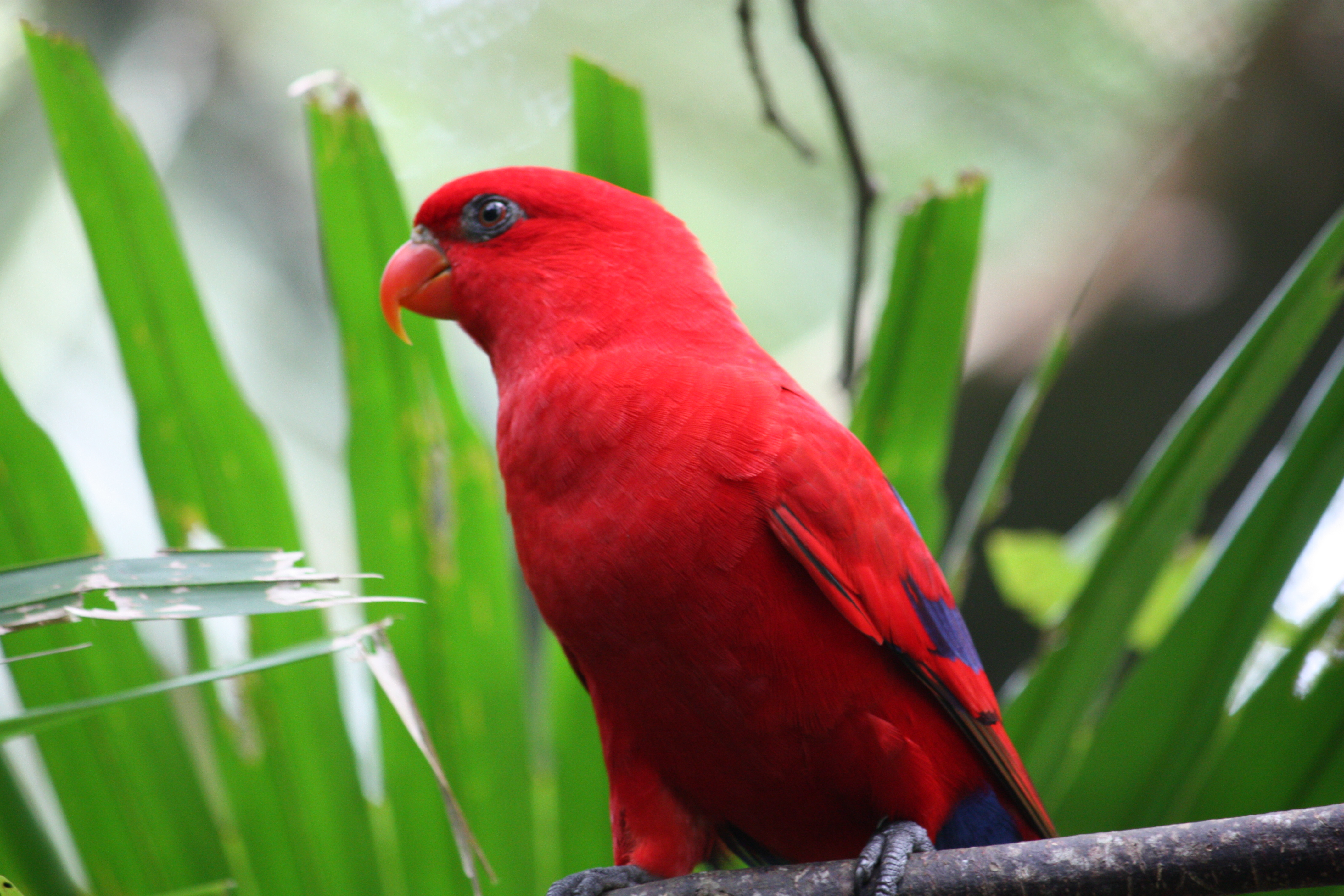 Red Lory (Eos bornea) at Singapore Zoo.